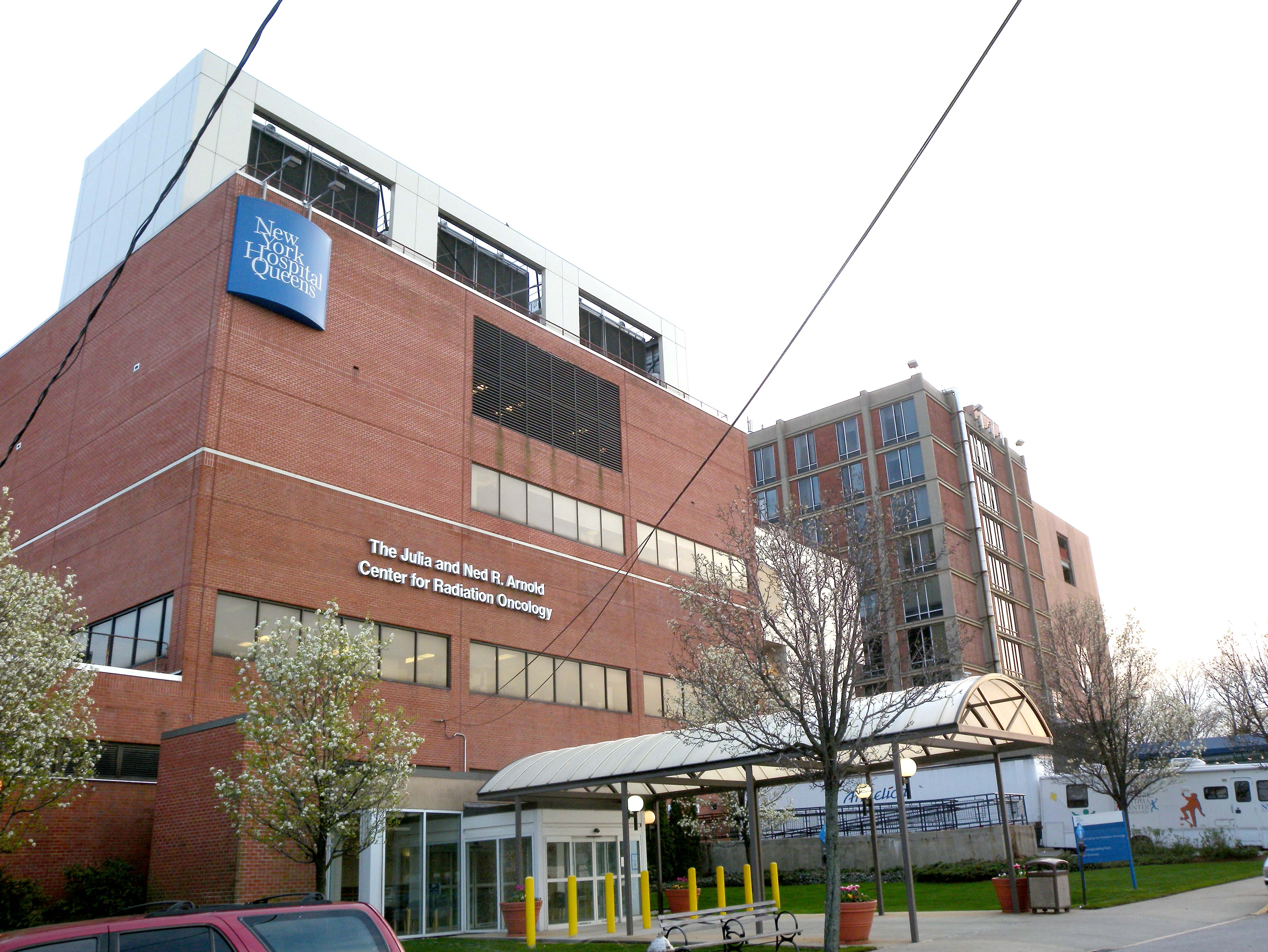 Looking southwest from 141st Street across 56th Avenue at New York Hospital Queens at dusk.